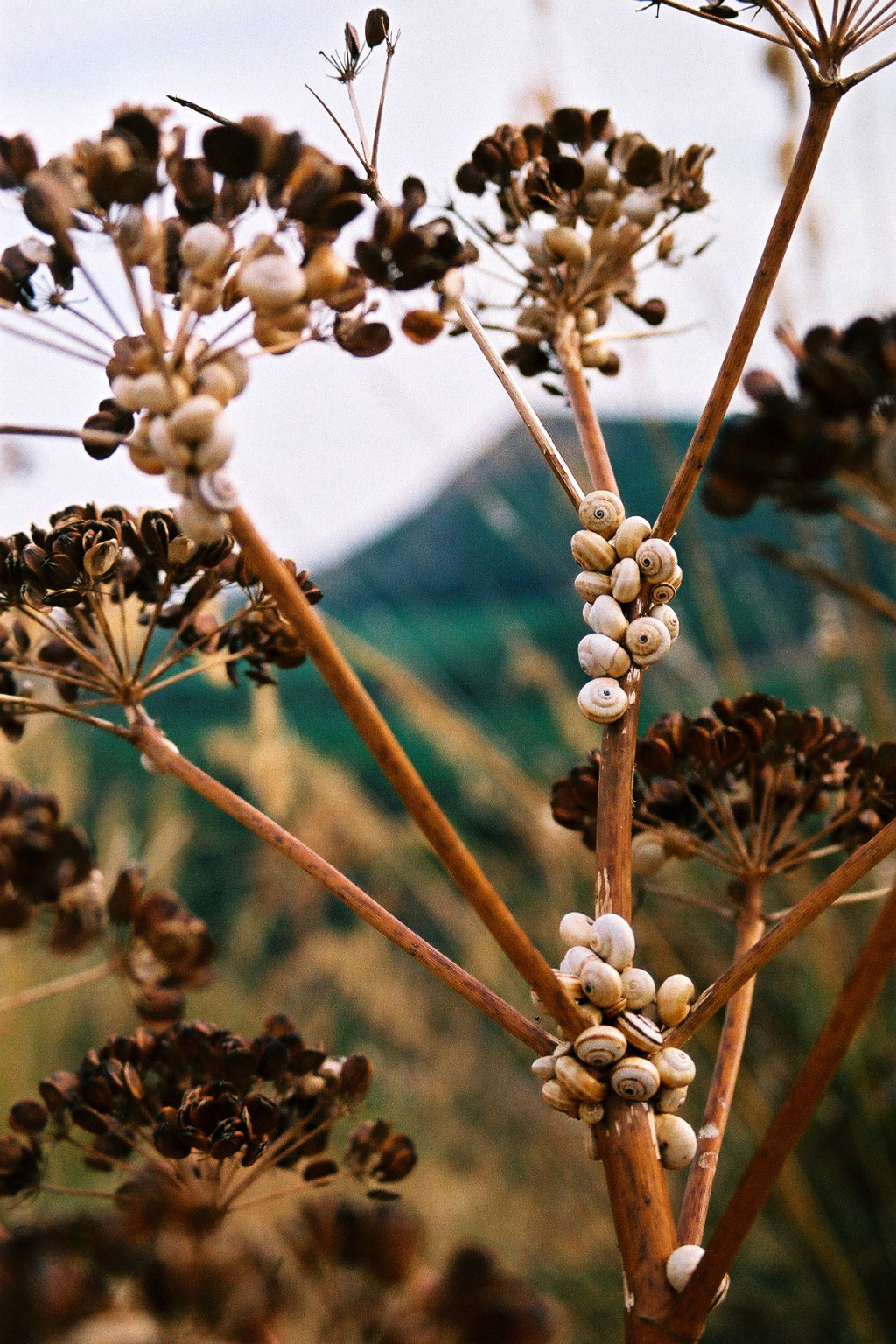 Colonies of snails of a species (probably Cernuella virgata) in the family Hygromiidae, estivating on plant stems, photographed near the temple of Segesta, Sicily